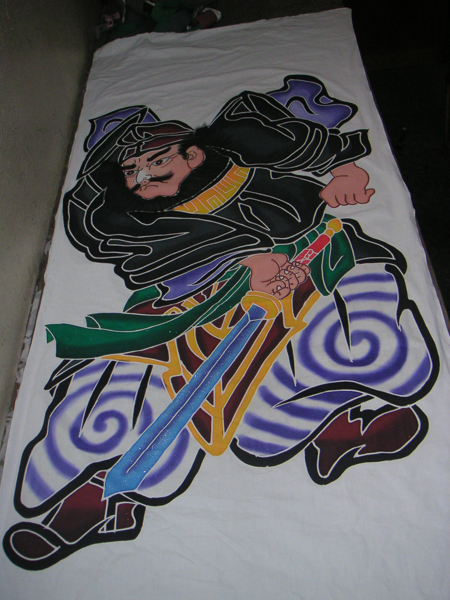 筒描き手染め武者絵のぼり 錘馗幟（ショウキ）Japanese TSUTSUGAKI Worriors Nobori